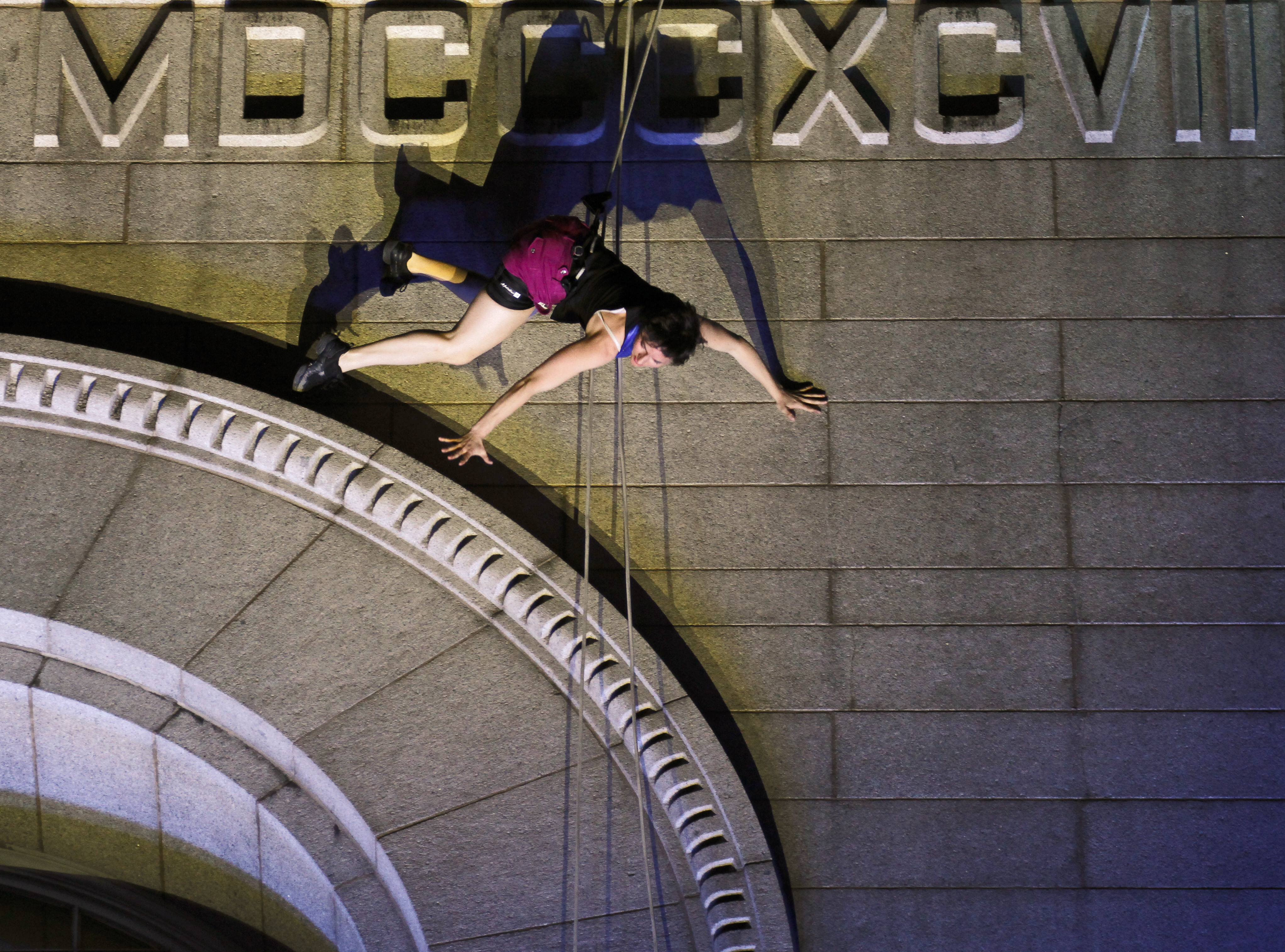 San Francisco based Project Bandaloop performs a vertical aerial dance on the side of the Old Post Pavilion as part of the Kennedy Center "Look Up" Program